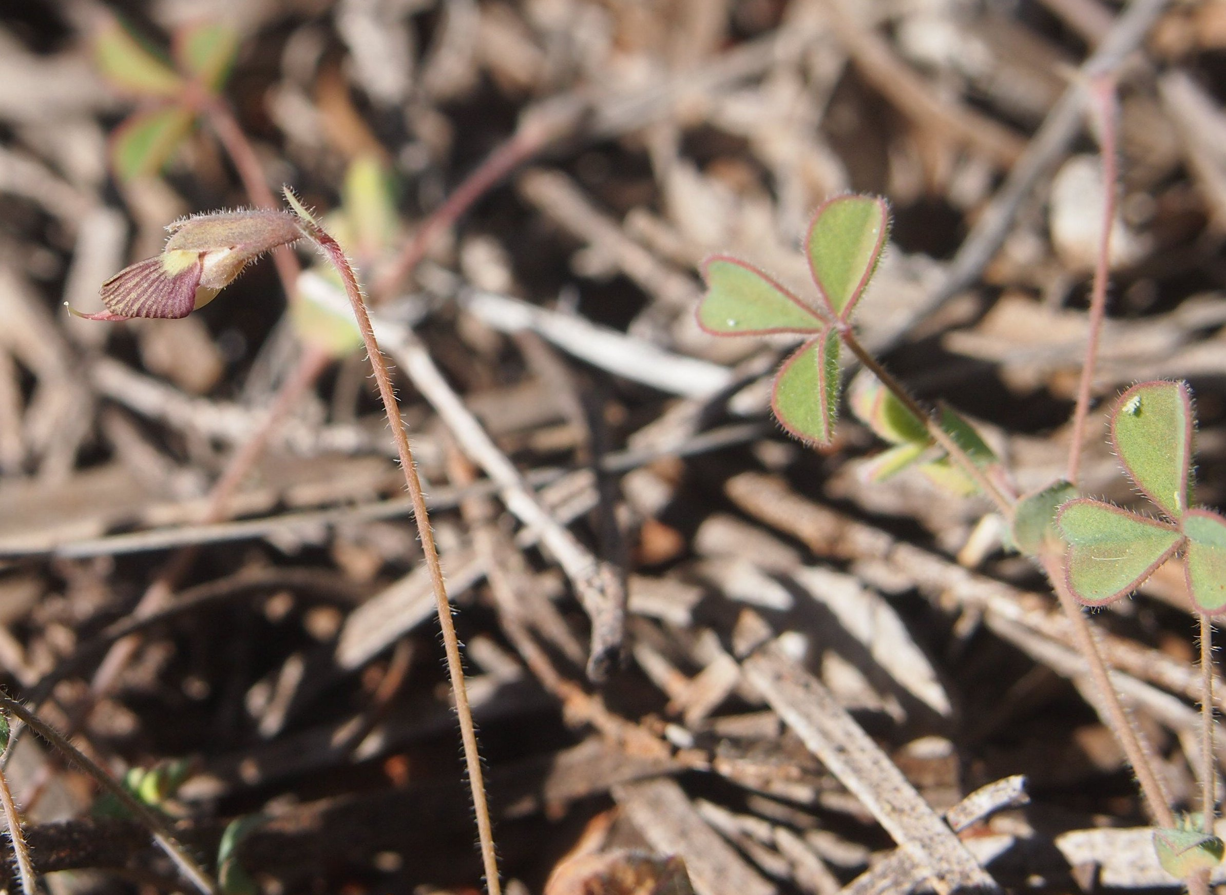 Muelleranthus stipularis flower